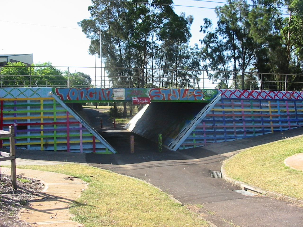 Bridge showing street art at Blackett, New South Wales, Australia